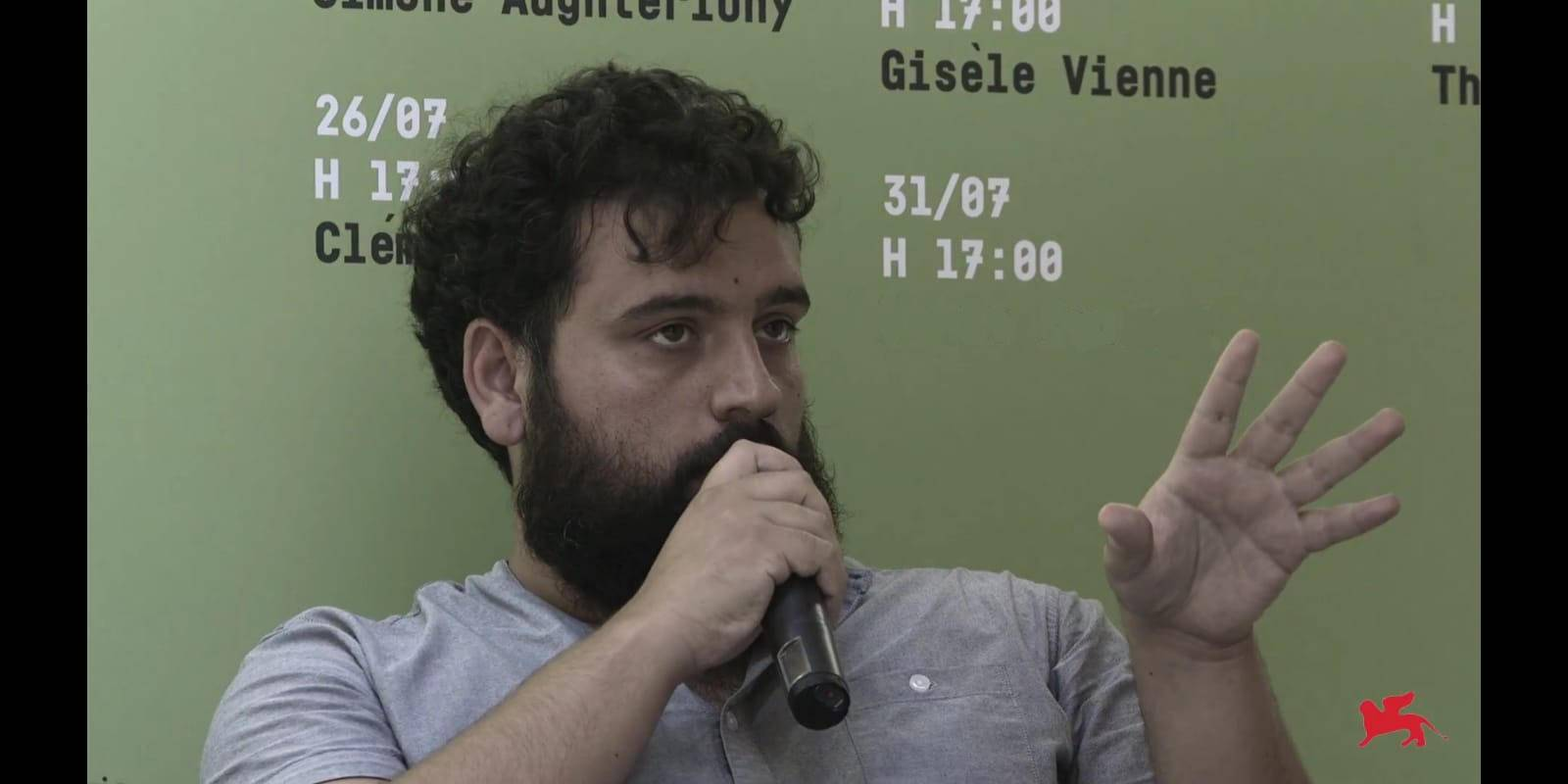 Foto Venice